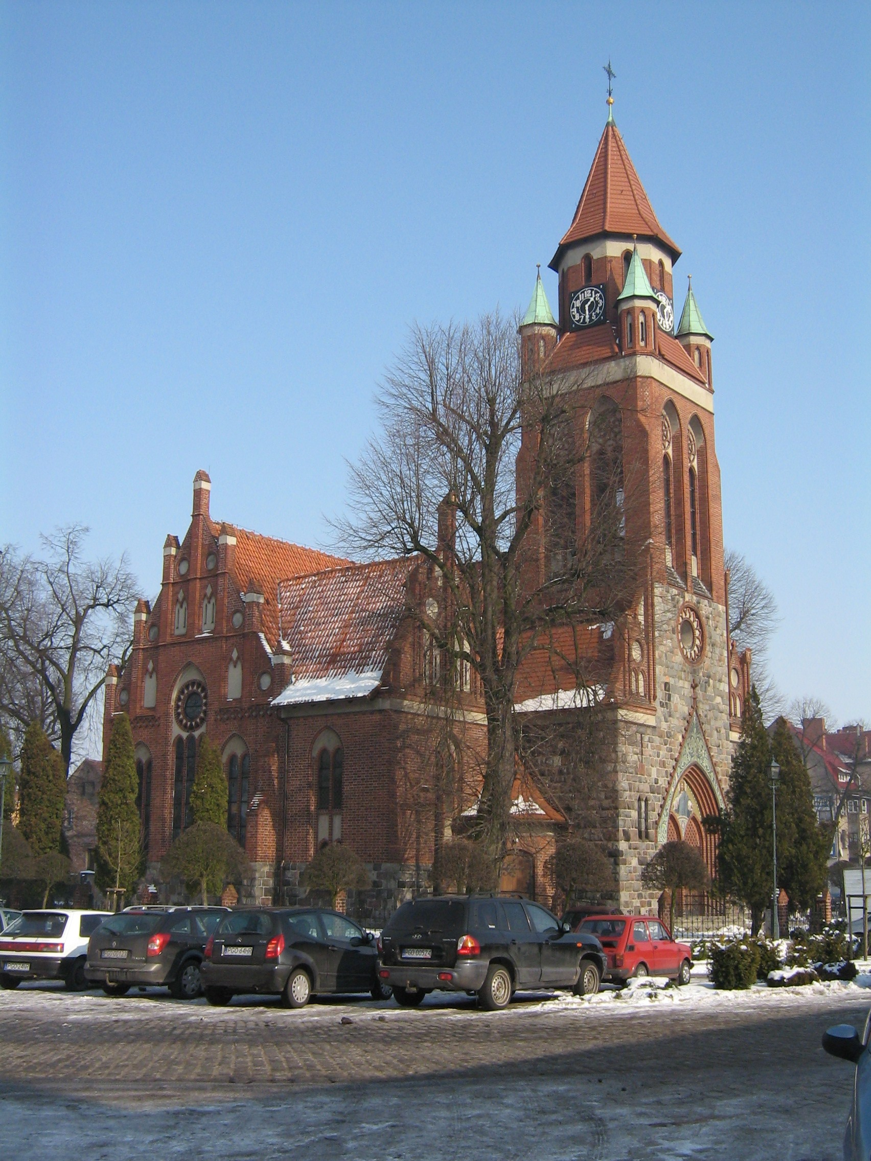 catholic Church of The Holy Heart of Jesus, Grodzisk Wielkopolski, Poland; former protestant church, built 1904/1905, designs by Ludwig von Tiedemann (Berlin)